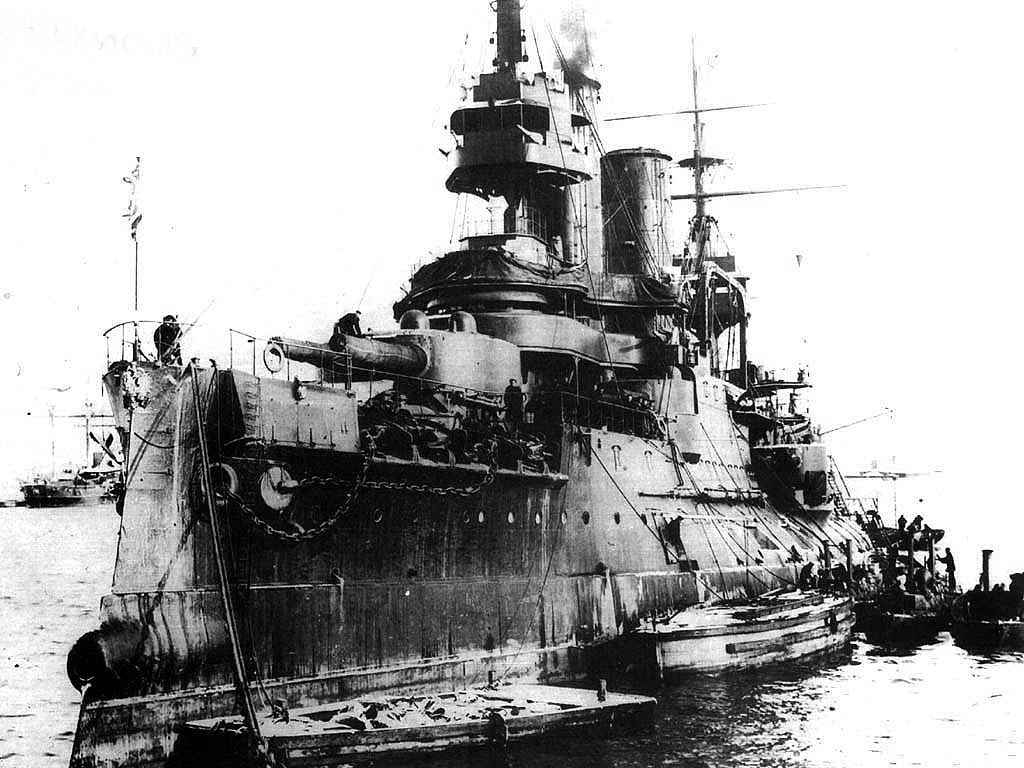 Imperial Russian battleship Tsesarevich in Port-Arthur, 1904.